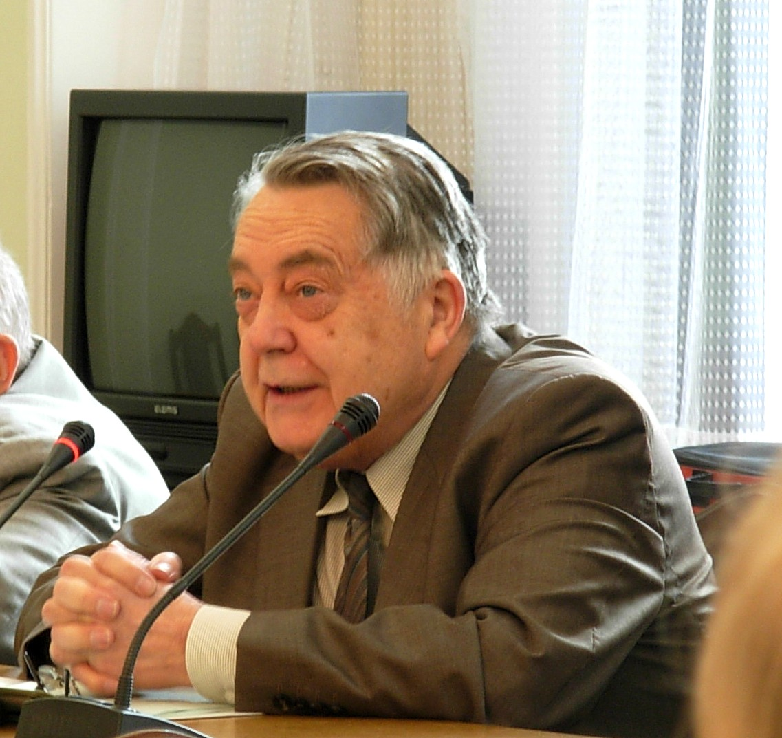 Bernard Margueritte, a Polish journalist of French origin residing in Zalesie near Warsaw (Varsovie), Pologne (Poland) in Sejm.